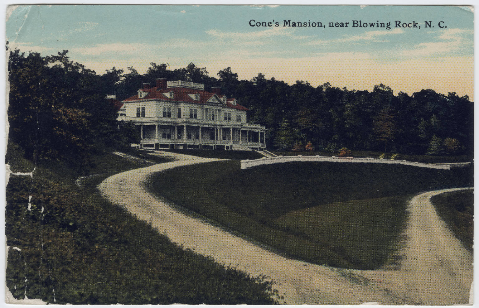 Postcard of "Cone's Mansion near Blowing Rock, N.C.," showing Flat Top Manor (or the Moses Cone Estate) in Blowing Rock. Postcard is dated 23 July 1911, and was printed at Asheville, N.C. On the observe is a note from Etta Cone, sister of Moses Cone, addressed to the writer Gertrude Stein at the Villa Ricci in Florence, Italy. Image courtesy of the Yale Collection of American Literature, Beinecke Rare Book & Manuscript Library, Yale University, New Haven, Connecticut.